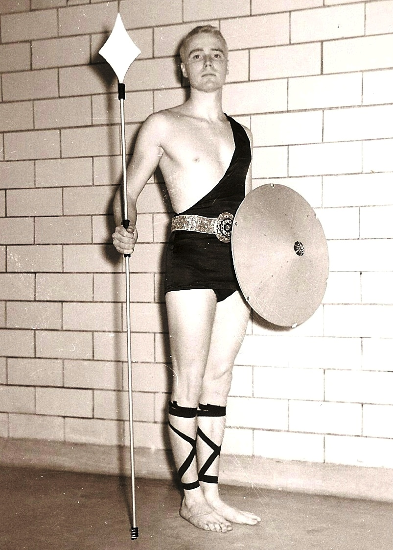 Bert Hubbard in 1954 during the US Junior National Synchro Championships in the swim dress for his solo program “Viking's prayer before battle”.